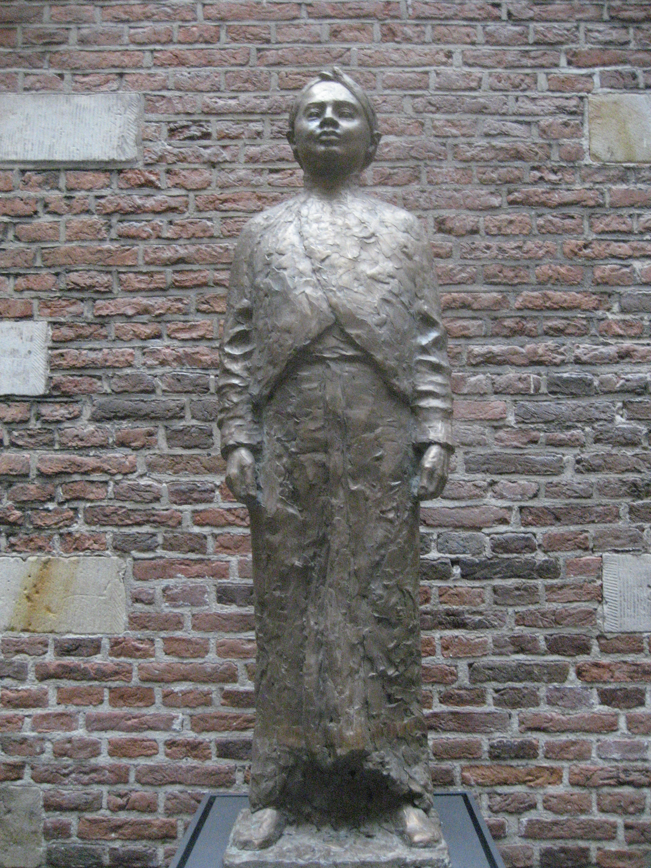 Sculpture of Husein Jayadiningrat, made by Aart Schonk. Location: Academiegebouw, Leiden (the Netherlands)